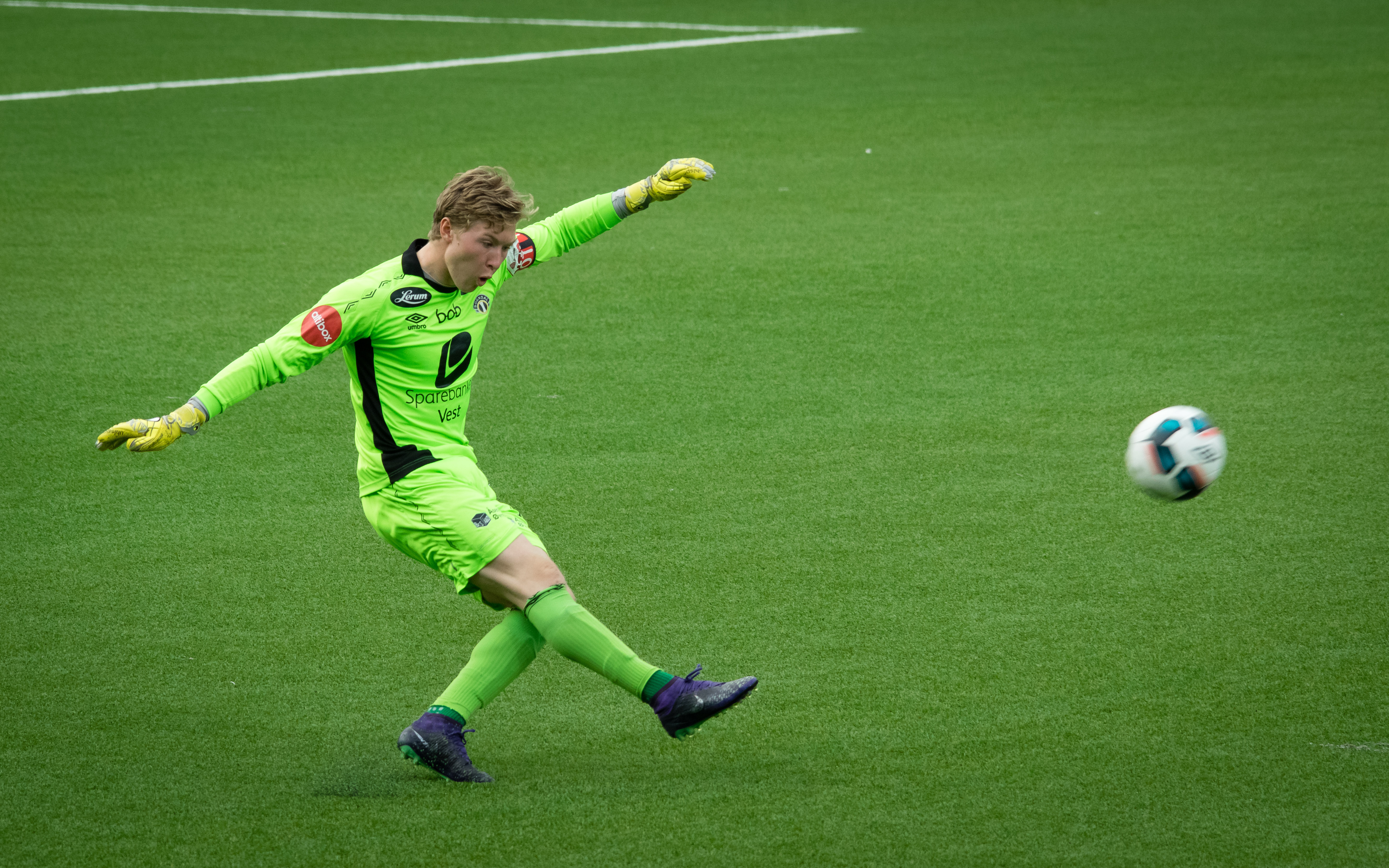 Keeper Mathias Dyngeland, Sogndal-Rosenborg 07-15-2017.